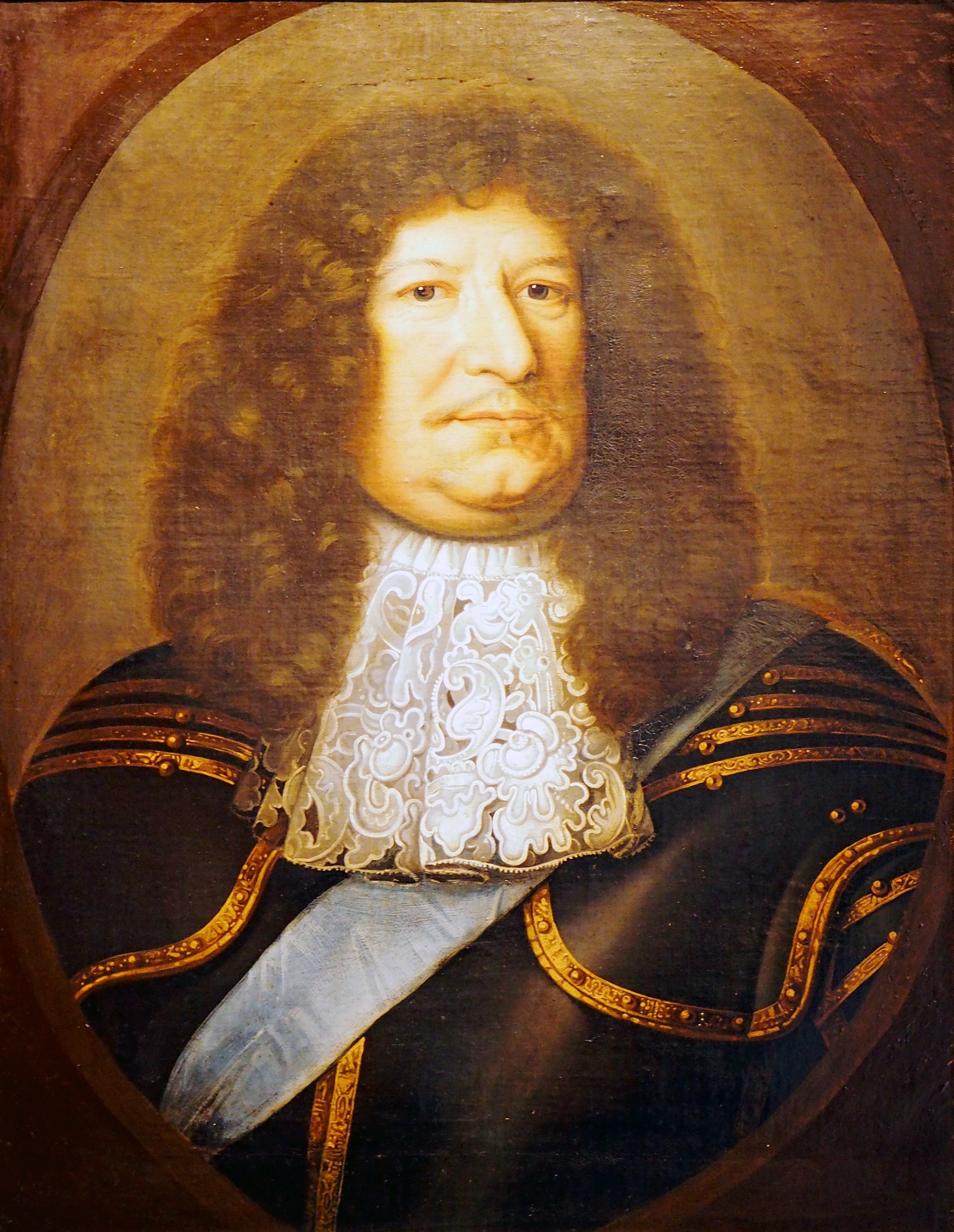 Frederick William, Elector of Brandenburg